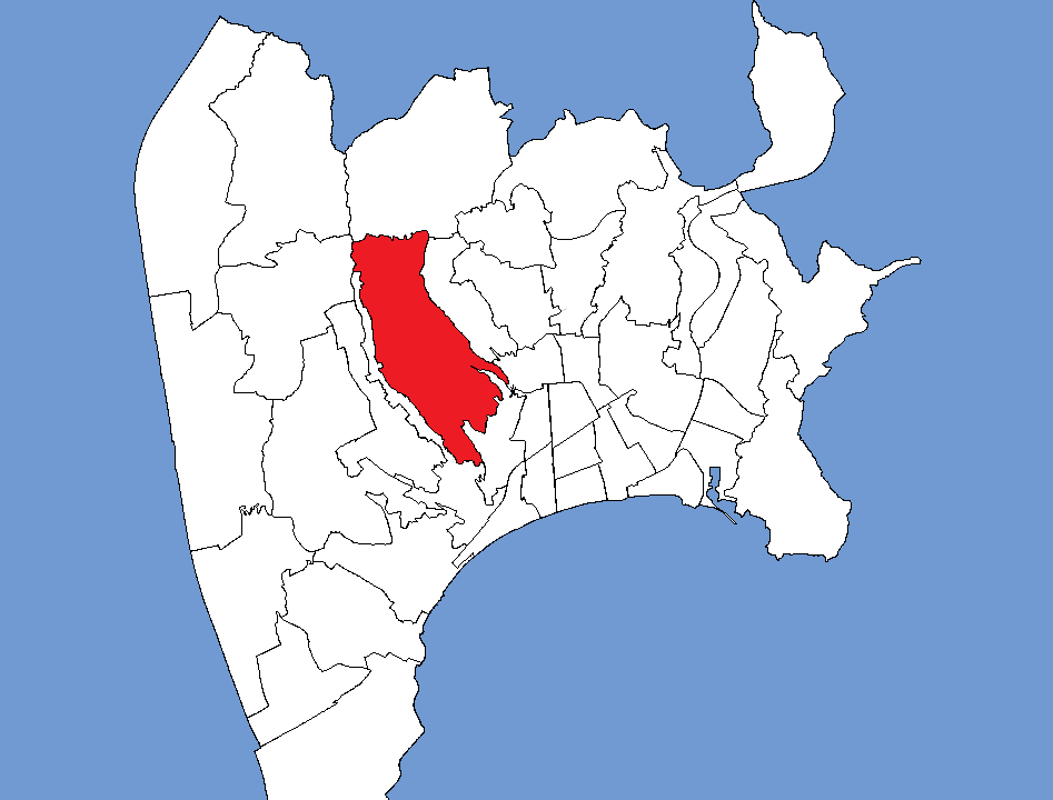 Location of the neighbourhood Saint Pierre de Feric in Nice